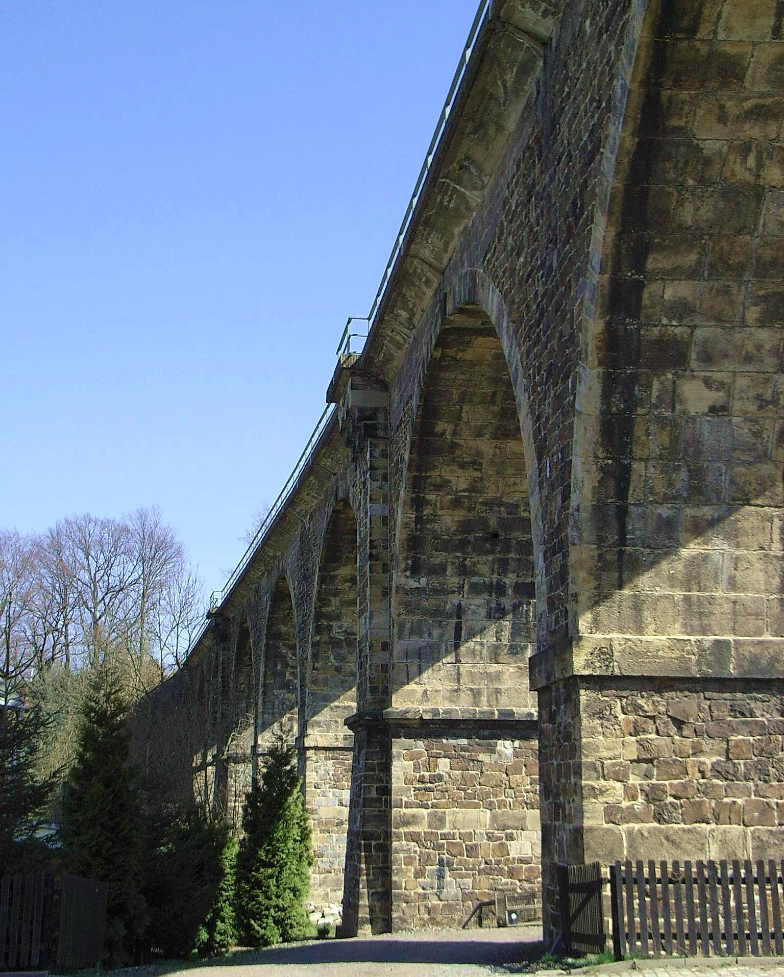 North side of the Rödlitzer viaduct at the railroad line Stollberg–St. Egidien